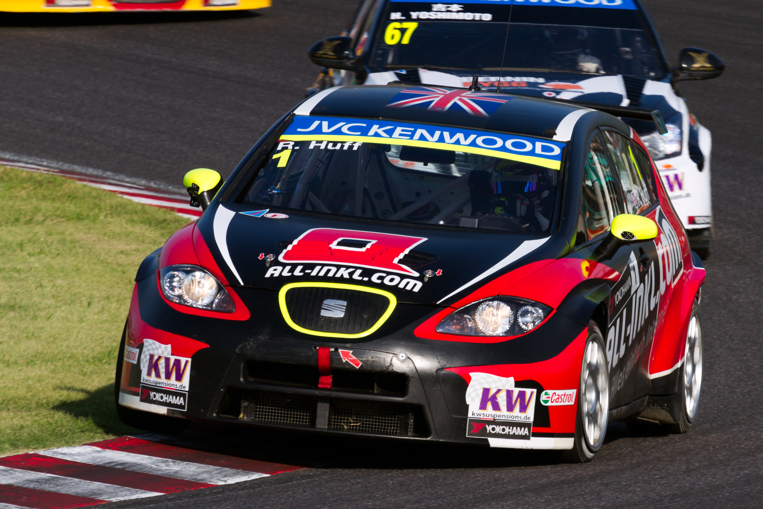 World Touring Car Championship 2013 Race of Japan: Robert Huff (Münnich Motorsport)